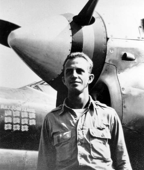 Major John S. Loisel standing in front of his P-38 Lightning fighter